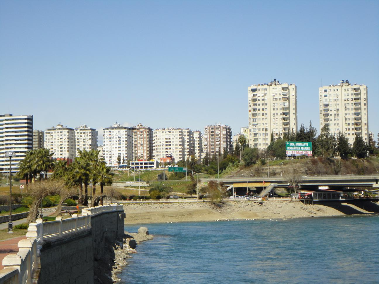 Beyazevler neighborhood in Adana